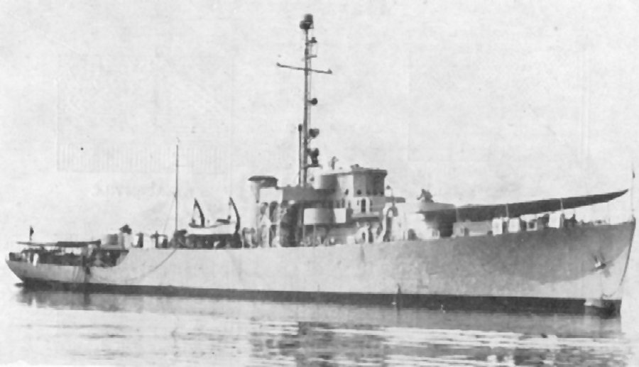 ex USS Groton (PF 29)